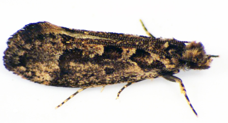 Erechthias capnitis (Turner, 1918). Adult.